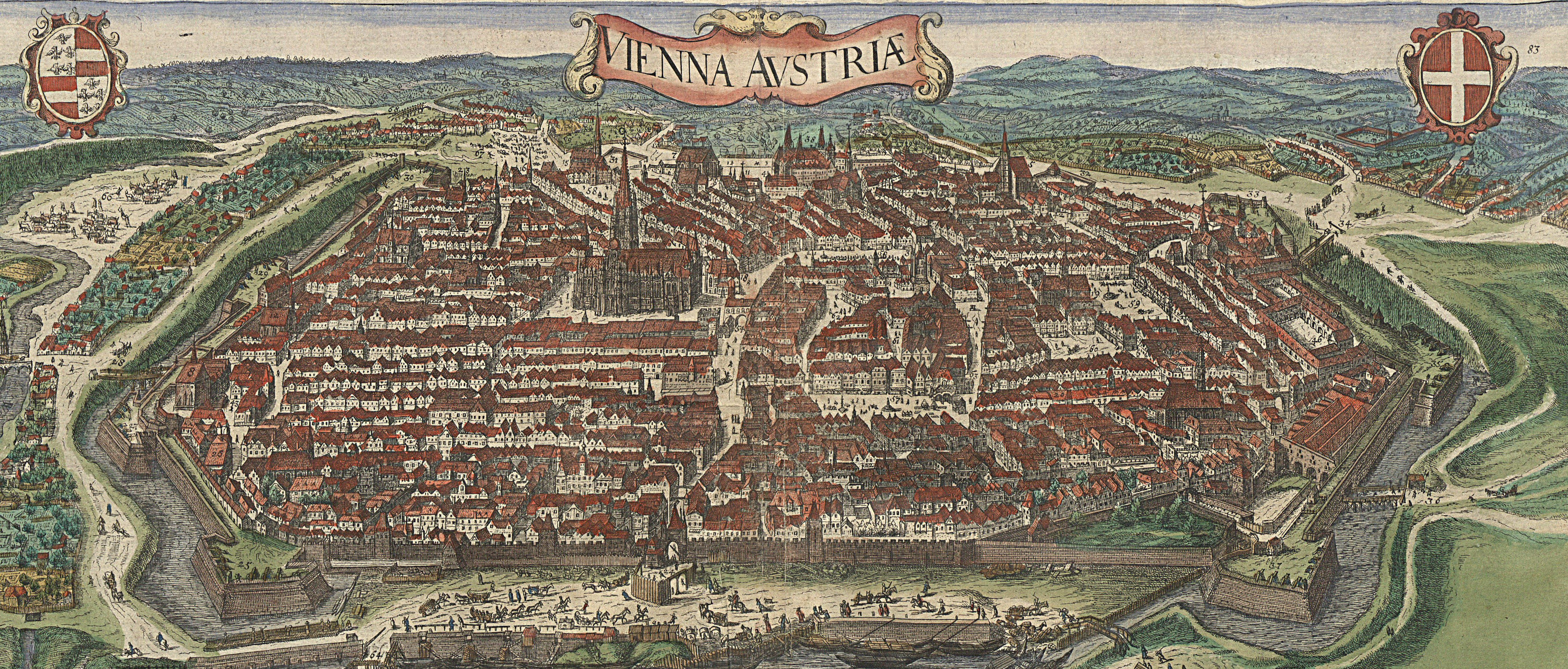 Bird's-eye view of Vienna from North. Second, unmodified edition of 1640, based on the first edition of 1609. Copperplate print and etching, composed of 3 x 2 sheets. Original size: 795 x 1595 mm. Title: VIENNA AVSTRIAE Wienn In Oesterreich. The text is flanked by the coat of arms of the dukedom (left) and the city Vienna (right). The fine print at the bottom-right reads Vißcher excudit. I. Houfnagel fecit.. The logo at far bottom-right contains a dedication to Kaiser Ferdinand III. Characteristic features: One of earliest bird's-eye views of a city, as opposed to the previously dominating profile views. Detailed display of the city and its sourrounding landscape Shows the then still medieval appearance of the city before the paradigm shift to baroque style. Shows the nearly finished fortification of the city, intended as a defense against the Osman Empire. (The part of the old city wall facing the danube side isn't yet strengthened / rebuilt)